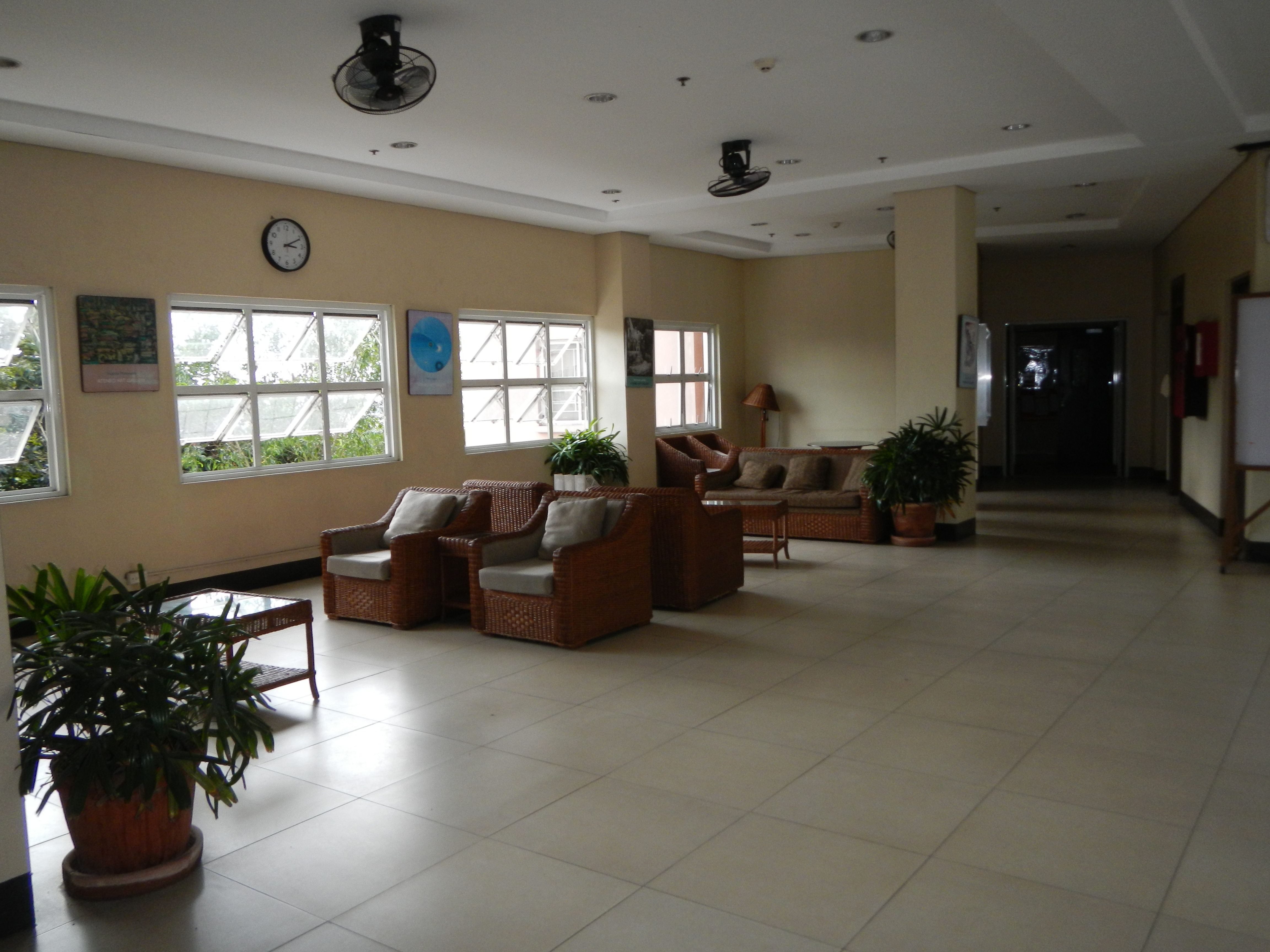 Ateneo de Manila University Dormitory[1]